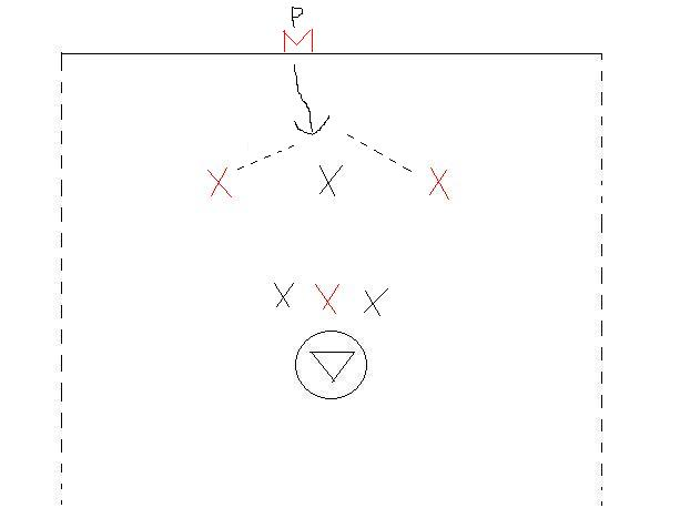 Image of V fast break formation in lacrosse